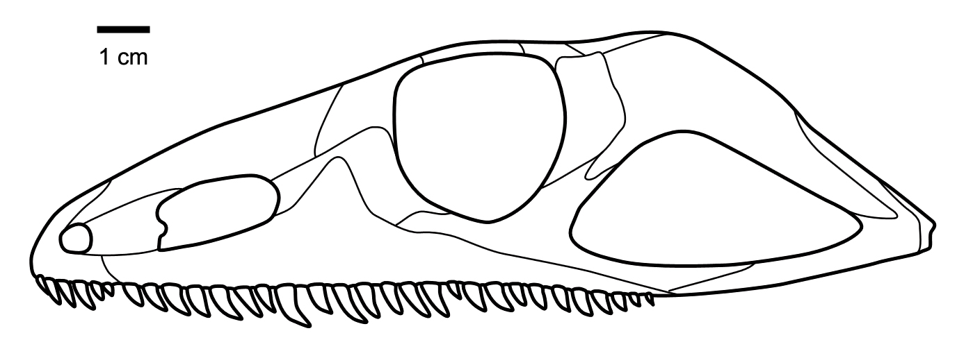 Outline reconstruction of the cranium of the varanopid synapsid amniote Varanodon agilis Olson, 1965 from the uppermost Lower or lowermost Middle Permian of Oklahoma, USA (modified from Reisz and Laurin 2004)